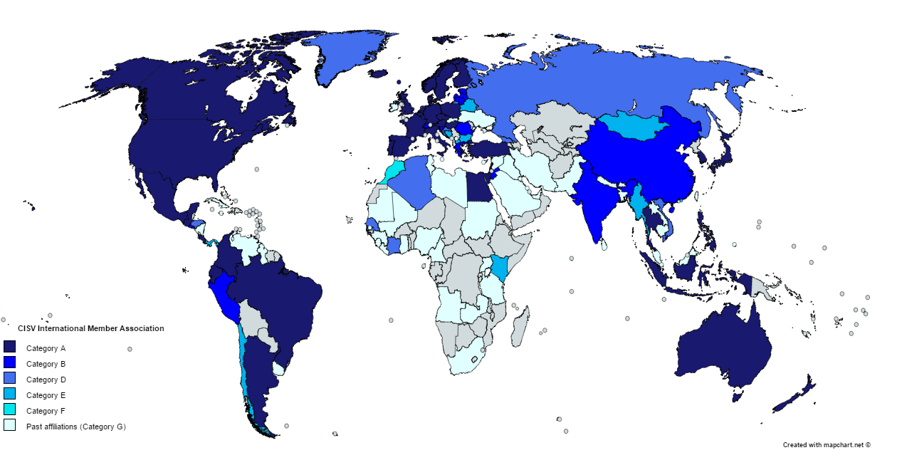 Map of CISV International's member associations